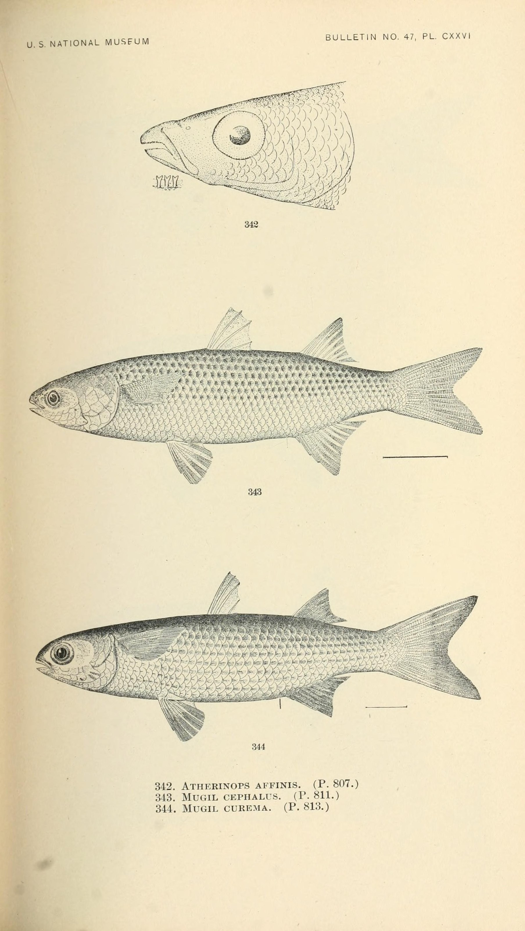 U. S. NATIONAL MUSFUM iULLETIN NO. 47, PL. CXXVI 'Jill J^))0.V. 342 w If \^ 344 342. Atherinops affinis. (P. 807.) 343. MUGIL CEPHALUS. (P. 811.) 344. MUGIL CUREMA. (P. 813.)